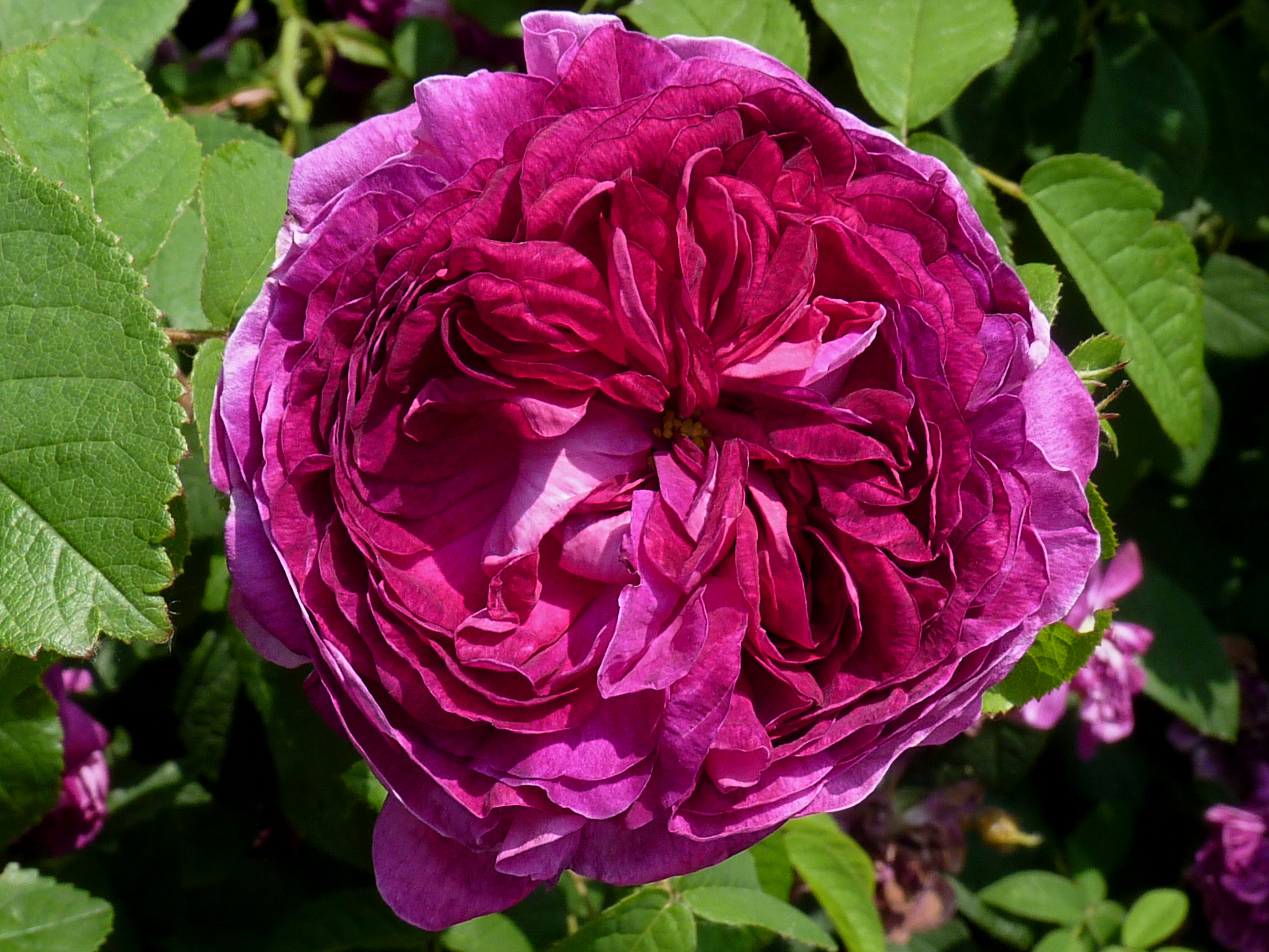 Rosa 'Charles de Mills' (Unknown, already cultivated at the XVIIIth century), in the international rose garden of Kortrijk, Belgium.